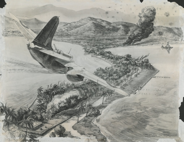 The incident for which Flight Lieutenant W. Newton was awarded the V.C. Picture shows the attack on the Isthmus and foreshore. The aircraft in foreground is strafing down the Isthmus, setting fire to the damaged stores buildings. After dropping their bombs on the south shore of the harbour, smoke was rising up. The illustration depicts the intrepid low-level attacks which have been an outstanding feature of Boston operations, New Guinea.